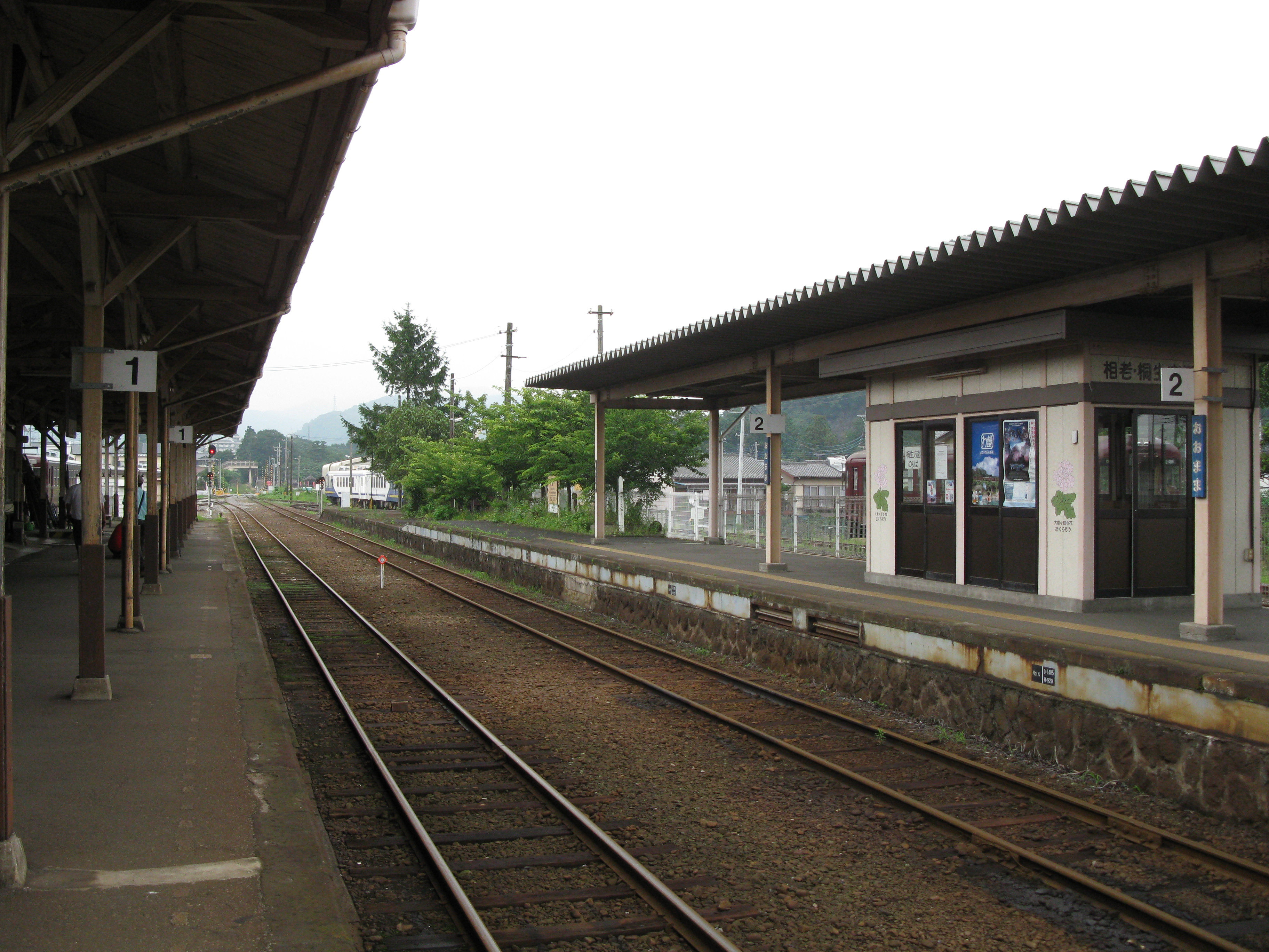 The platforms at Ōmama Station on the Watarase Keikoku Line in Midori city, Gunma prefecture, Japan